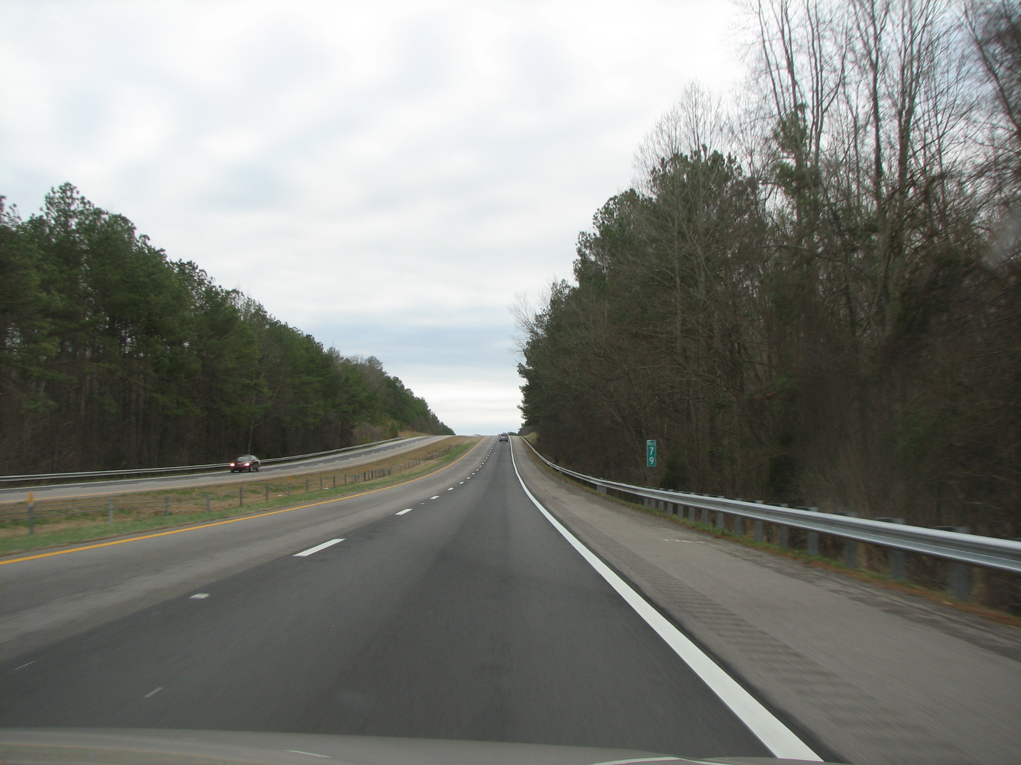 This photo was taken while traveling on South I-26 in South Carolina, at mile-marker 79 - about 20 miles south of the interchange with I-385.